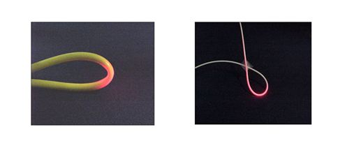 PON diagram